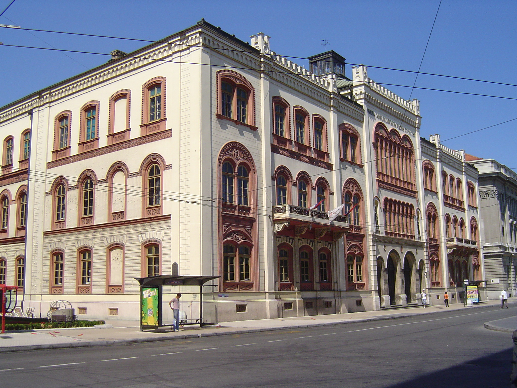 Building of Rectorate of University of Belgrade.